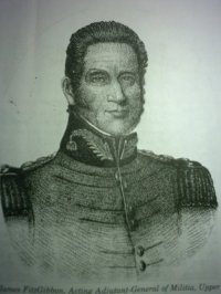 Painting of middle-aged James Fitgibbon in his military dress uniform. Ima